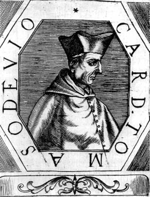 Kupferstich mit Portrait von Thomas Cajetan